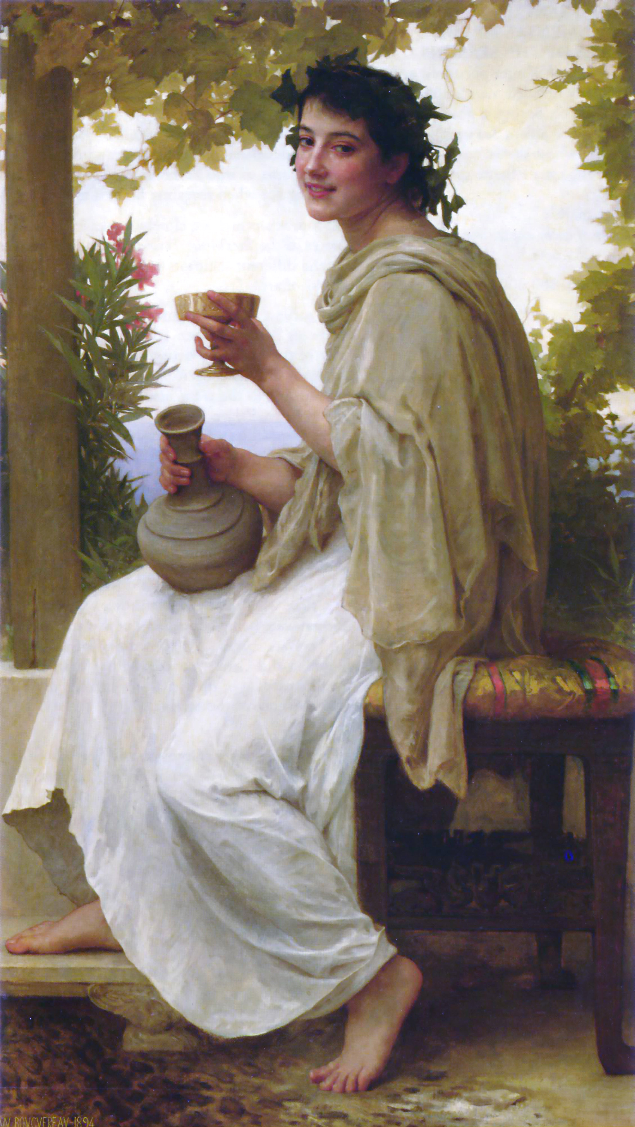 William-Adolphe Bouguereau (1825-1905) - Bacchante (1894)